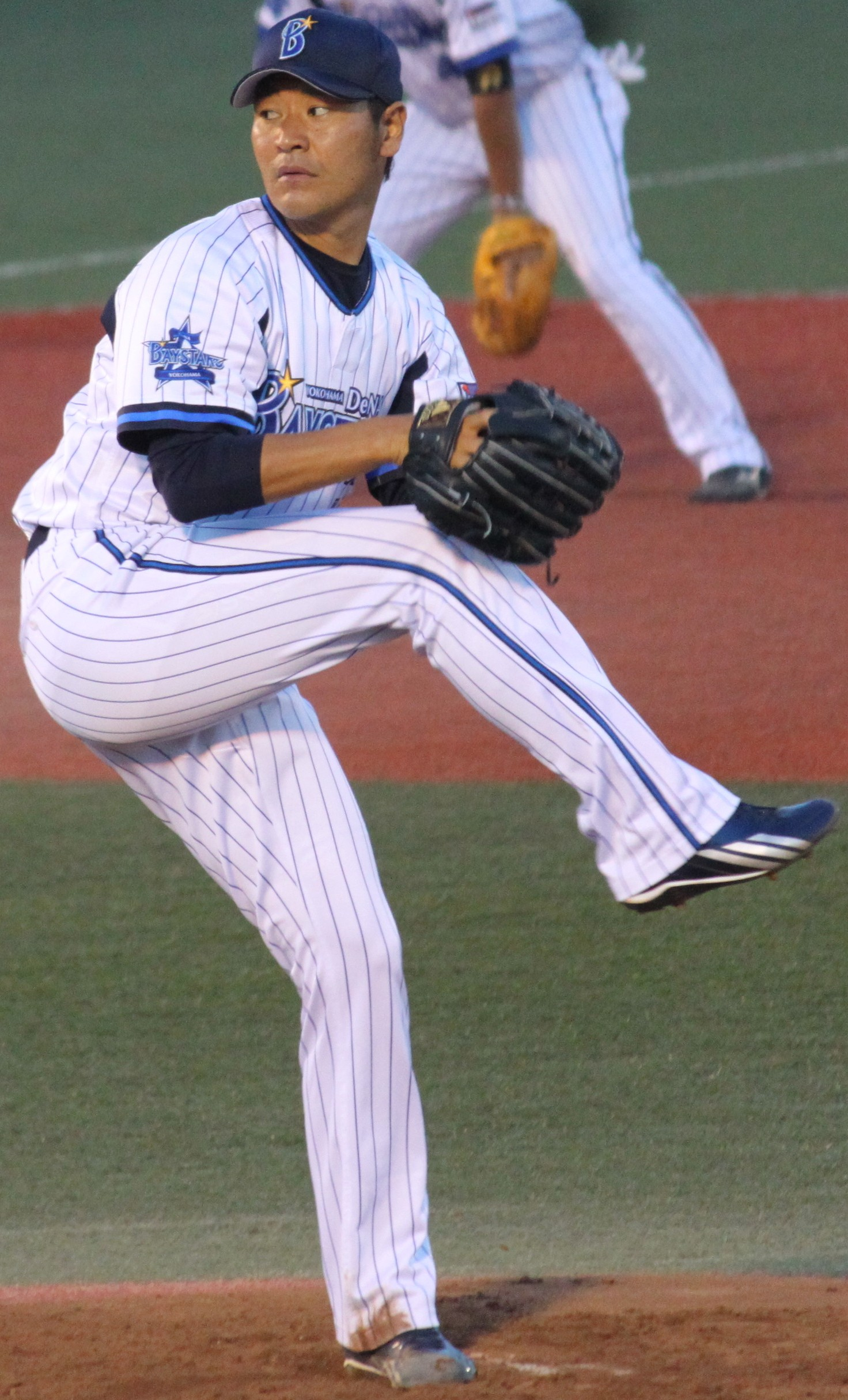 Hisanori Takahashi, pitcher of the Yokohama DeNA BayStars, at Yokosuka Stadium.